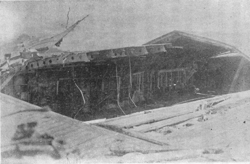 Damage to the Imperial Japanese Navy aircraft carrier Shokaku after the ship was hit by American carrier aircraft bombs during the Battle of the Santa Cruz Islands. View of damage to flight deck and upper part of hangar.